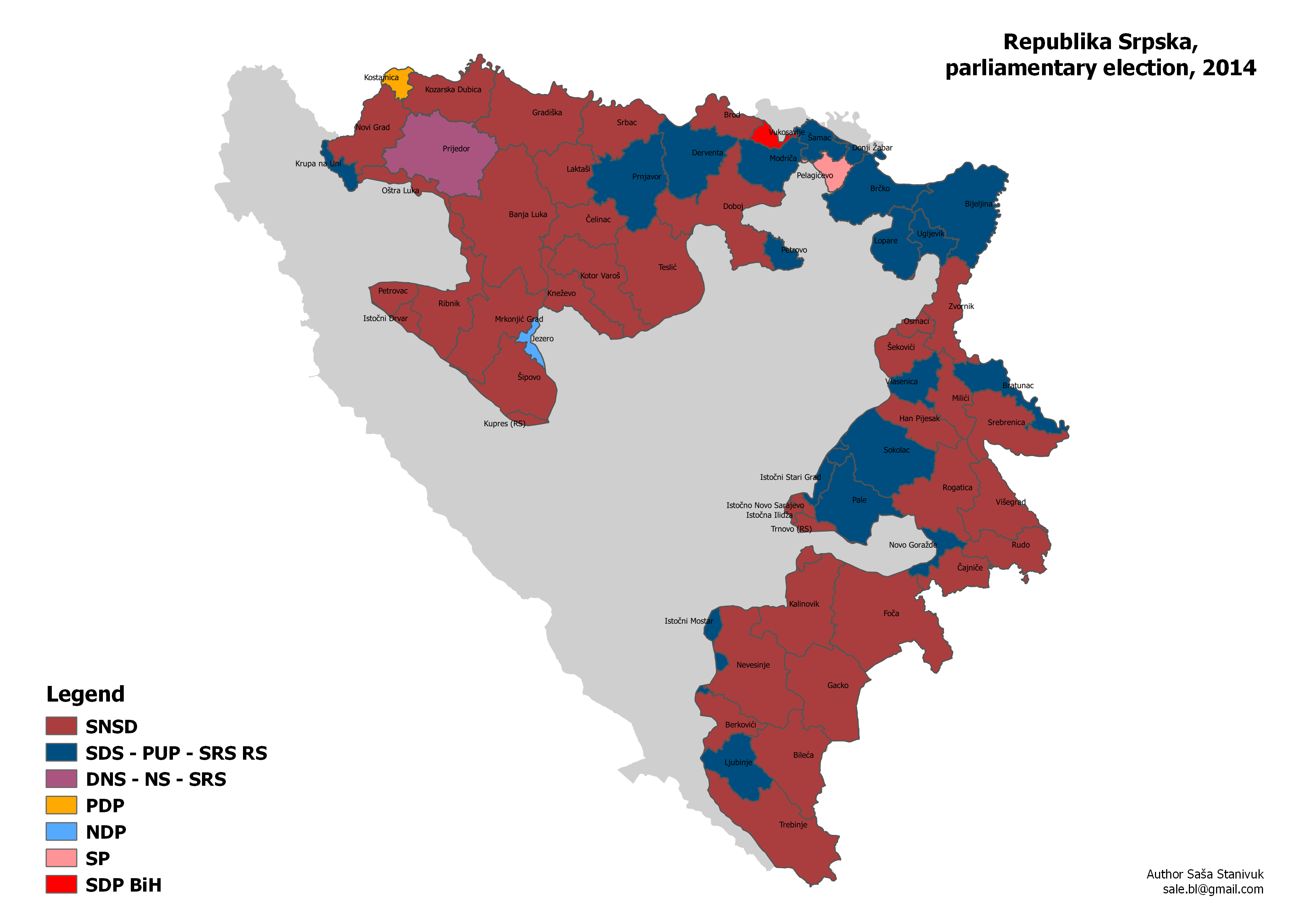 Republika Srpska, parliamentary election map, 2014